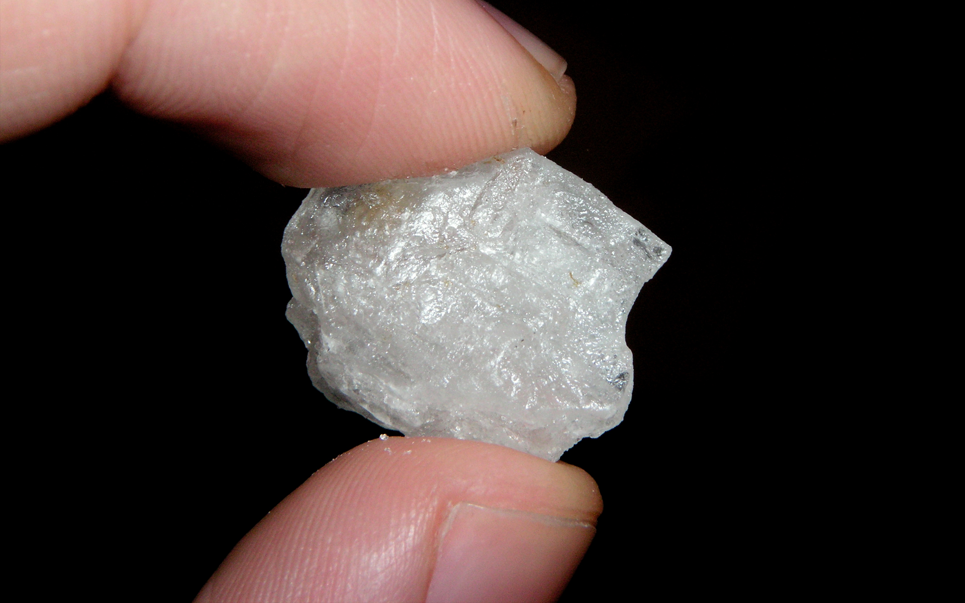 2 Gs of Tweak